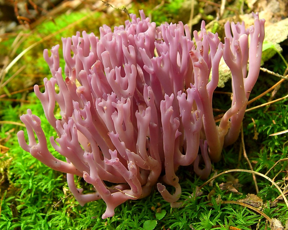 Scientific Name: Clavulina amethystina (Fr.) Donk Common Name: Violet Branched Coral Fungus Certainty: positive (notes) Location: Southern Appalachians; Smokies; CabinCove